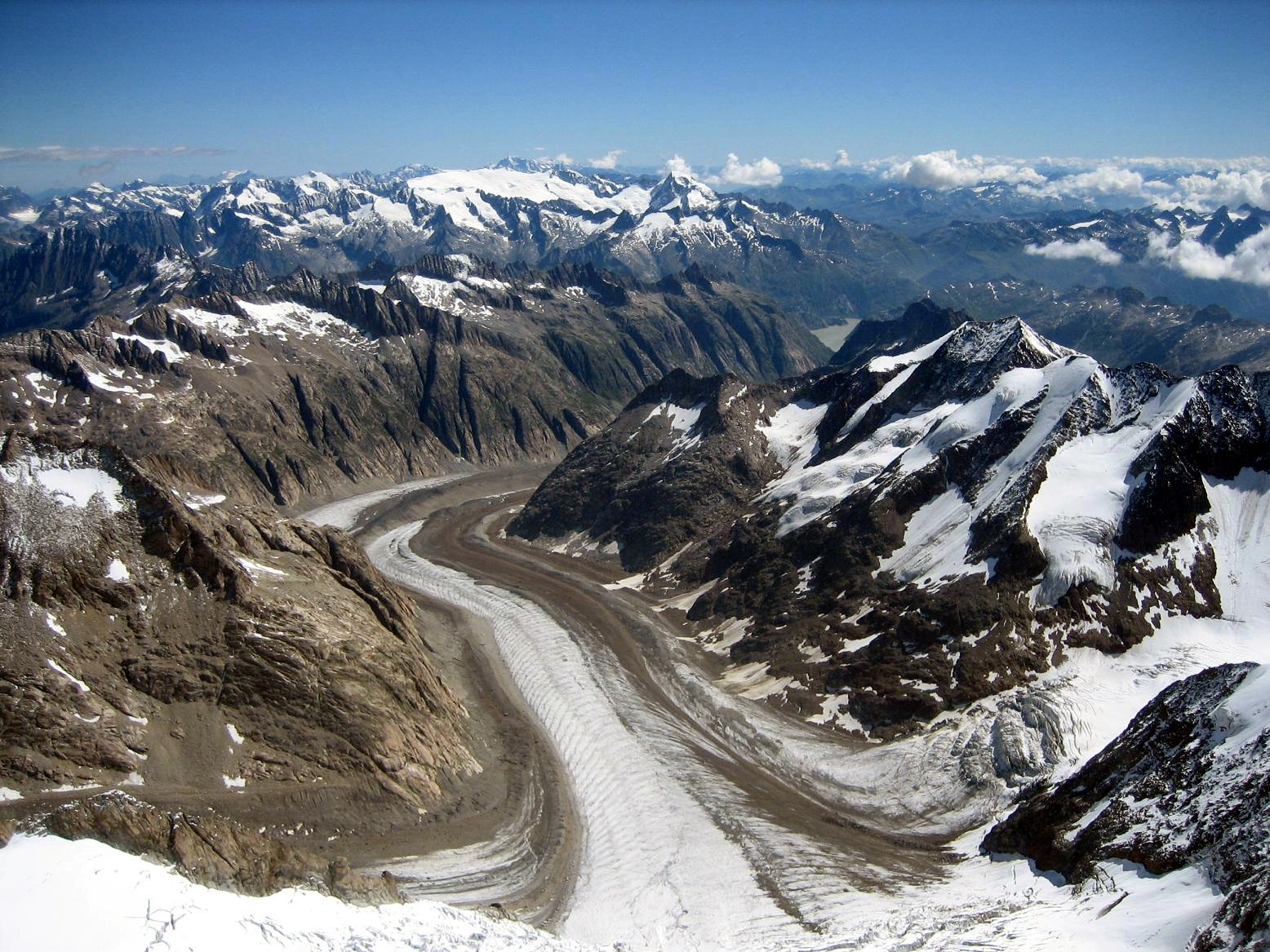 Finsteraar Glacier (Finsteraargletscher) from Finsteraarhorn